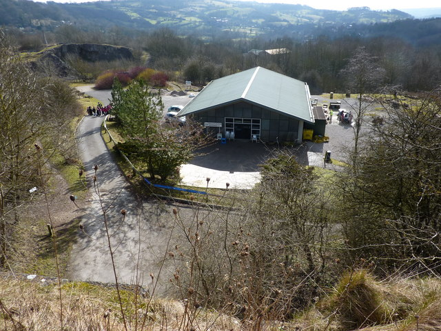 The National Stone Centre. Set in fifty acres of Derbyshire countryside, the National Stone Centre site contains six former quarries, four lime kilns and over one hundred and twenty disused lead mine shafts. Near Wirksworth